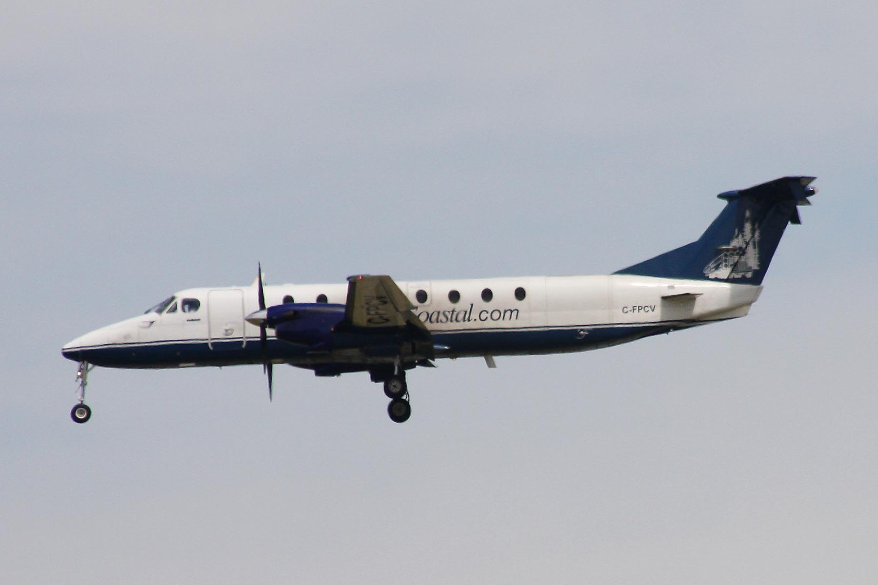 C-FPCV Beech 1900C Pacific Coastal YVR